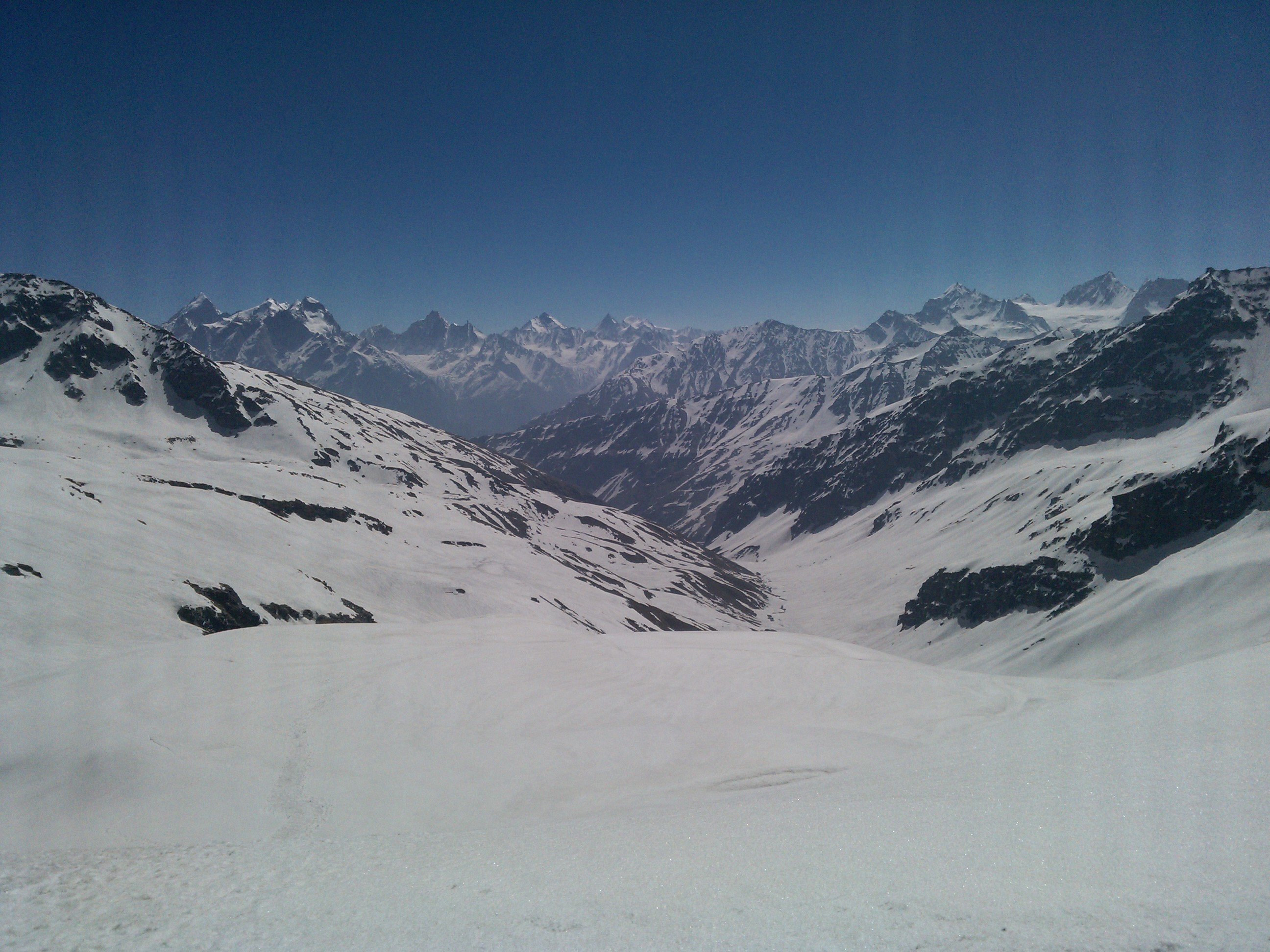 Standing on the Rupin pass, the Greater Himalayas with peaks like Jorkanden and Kinner Kailash can be seen in the distance